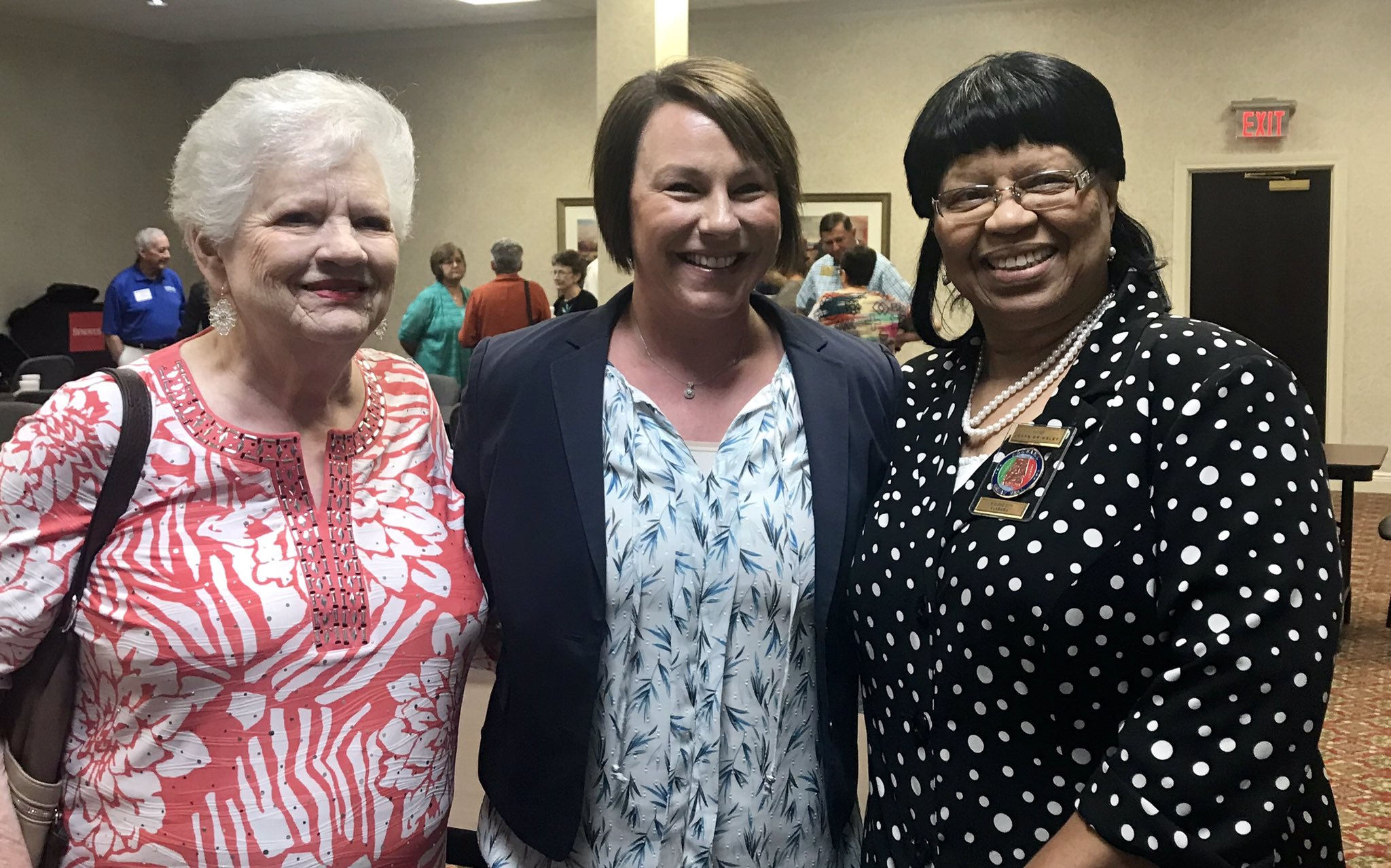 Martha Roby with members of the Ozark Kiwanis Club in Ozark, Alabama